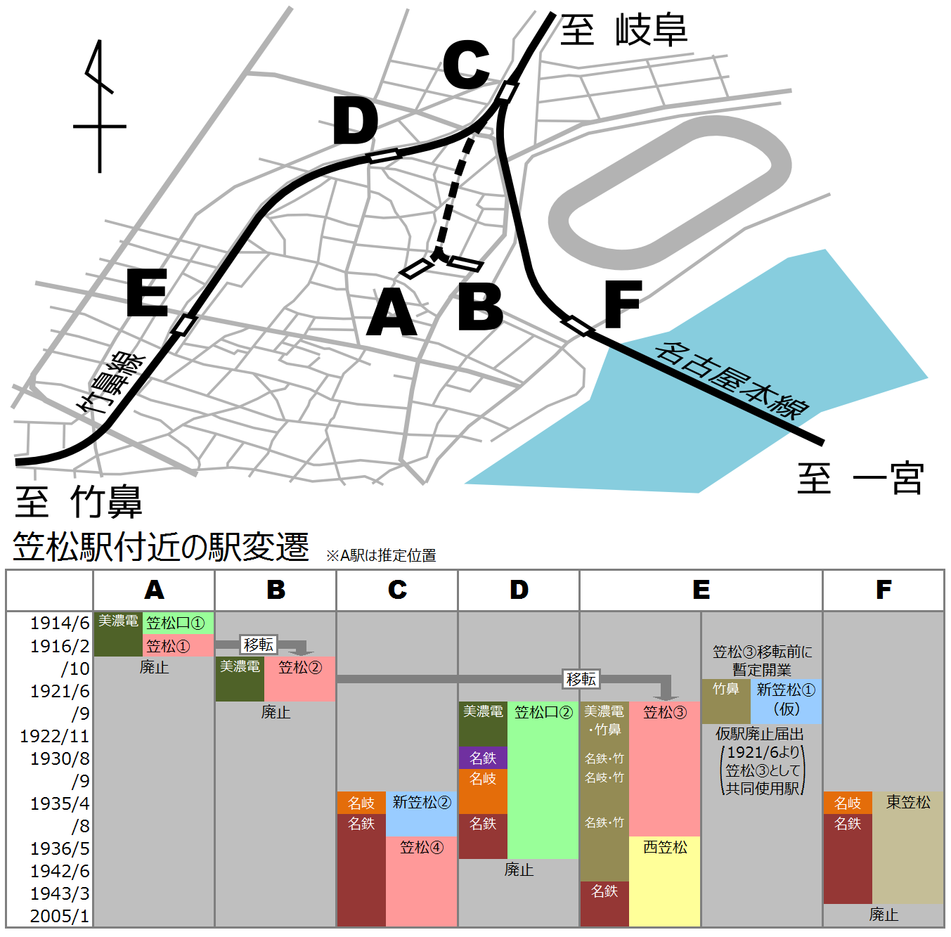 Changes of the Station in the Kasamatsu Area. (bird's eye view) References refer to this page.